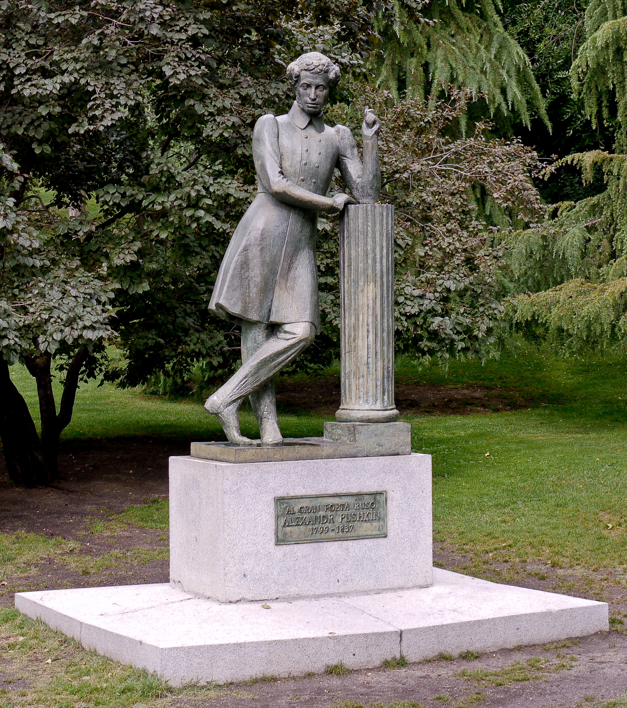 Statue of Alexandr Pushkin. Quinta de la Fuente del Berro, Madrid, Spain.